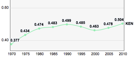 Trends in the Human Development Index for the country, 1970-2010